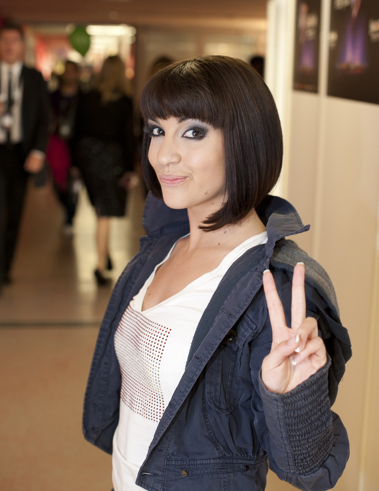 Nadine Beiler from Austria at Eurovision Song Contest 2011 in Düsseldorf